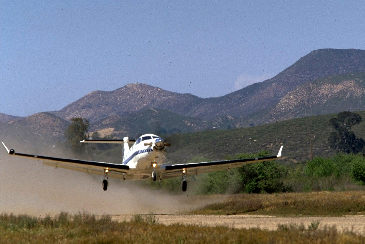 Pilatus PC-12 operating from short, unimproved airfield. The PC-12 was selected by Air Force Special Operations Command and given the nomenclature U-28A. The U stands for utility. The U-28A filled an urgent requirement to provide low cost, reliable support to SOF forces in the field.